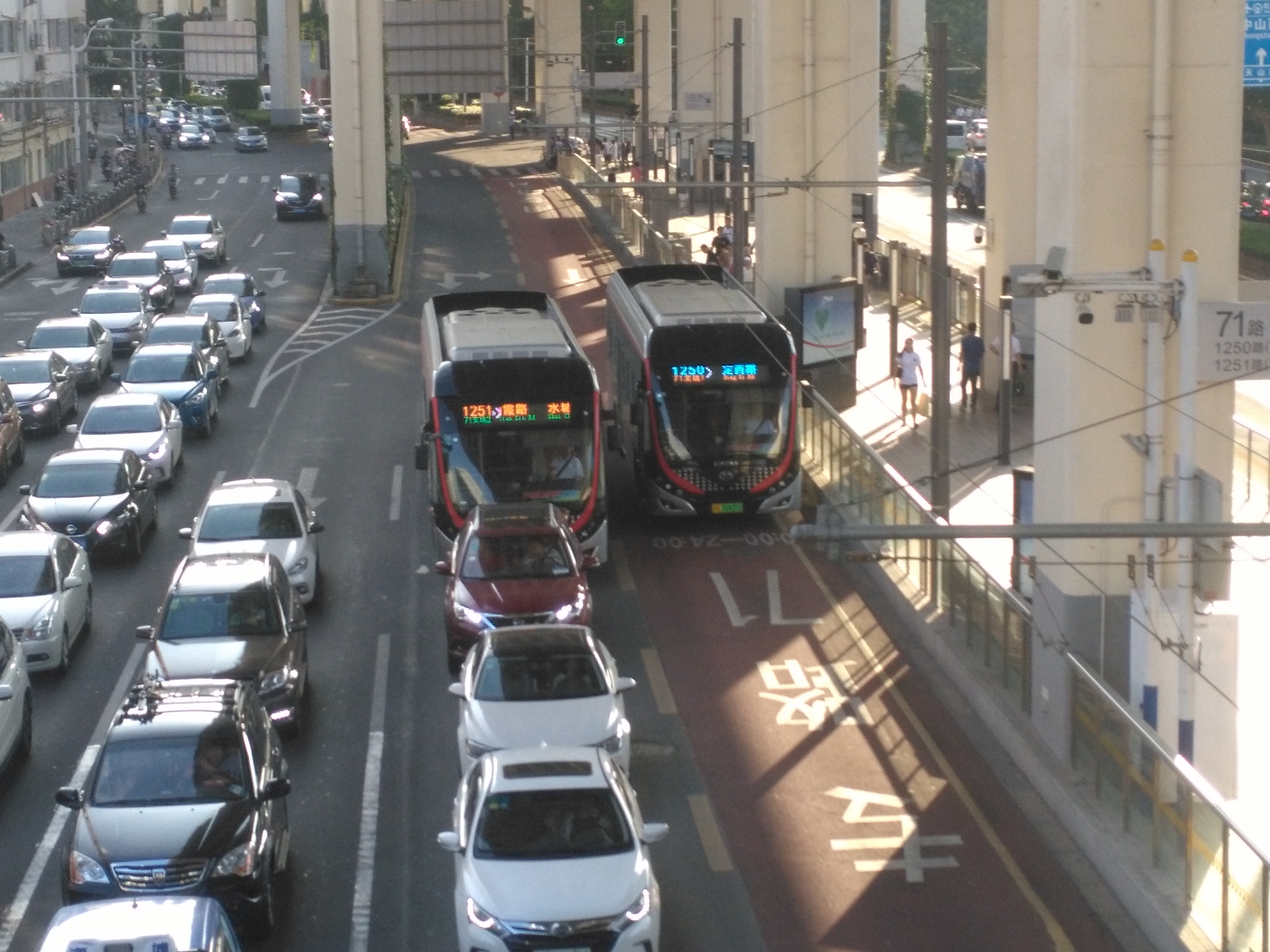 Two Yutong ZK6125BEVG25 buses (Route 1251 on the left, with Route 1250 on the right docked in the station) side by side at Kaixuan Road station, Yan'an Road Medium Capacity Bus Transit System.